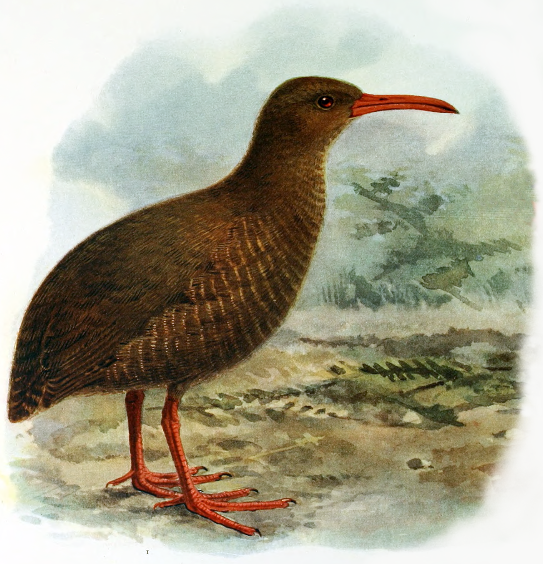 The Chatham Rail (Cabalus modestus, also Gallirallus modestus) is an extinct species of bird in the Rallidae family. It was endemic to New Zealand. It became extinct around the year 1900 due to introduced predators. The other bird is the New Zealand Quail, or koreke (the Māori name), Coturnix novaezelandiae. It has been extinct since 1875.